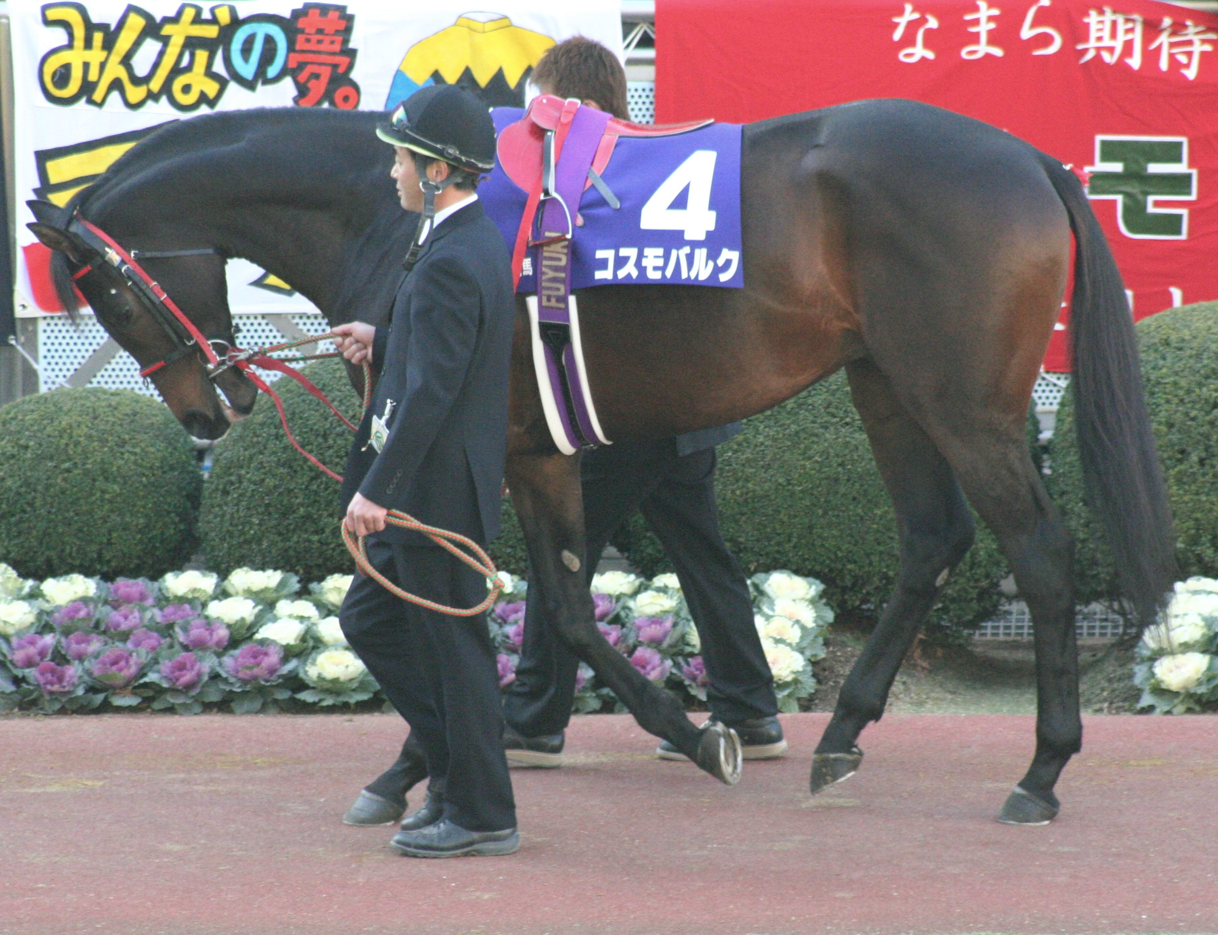 Cosmo Bulk